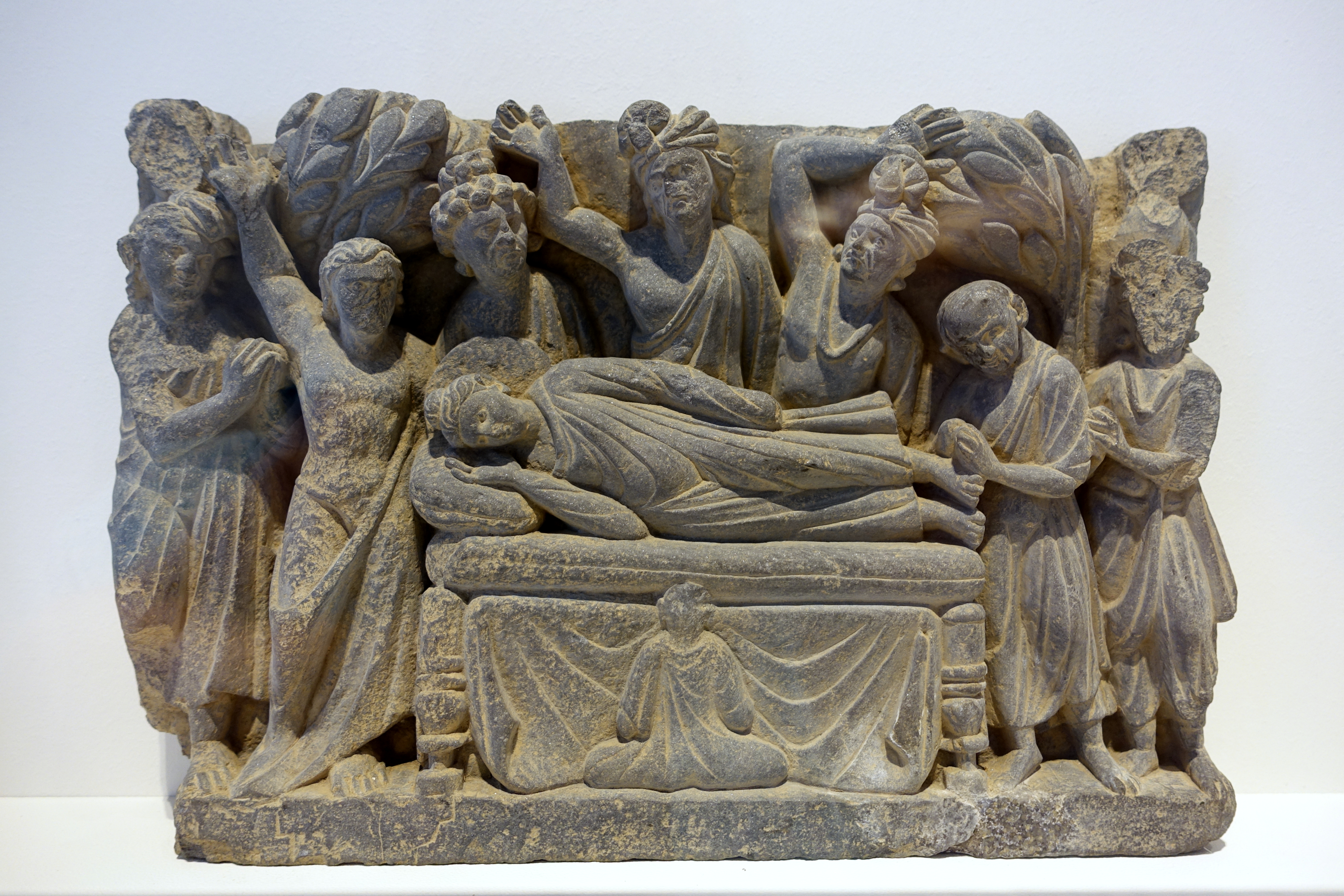 Exhibit in the John and Mable Ringling Museum of Art - Sarasota, Florida, USA.